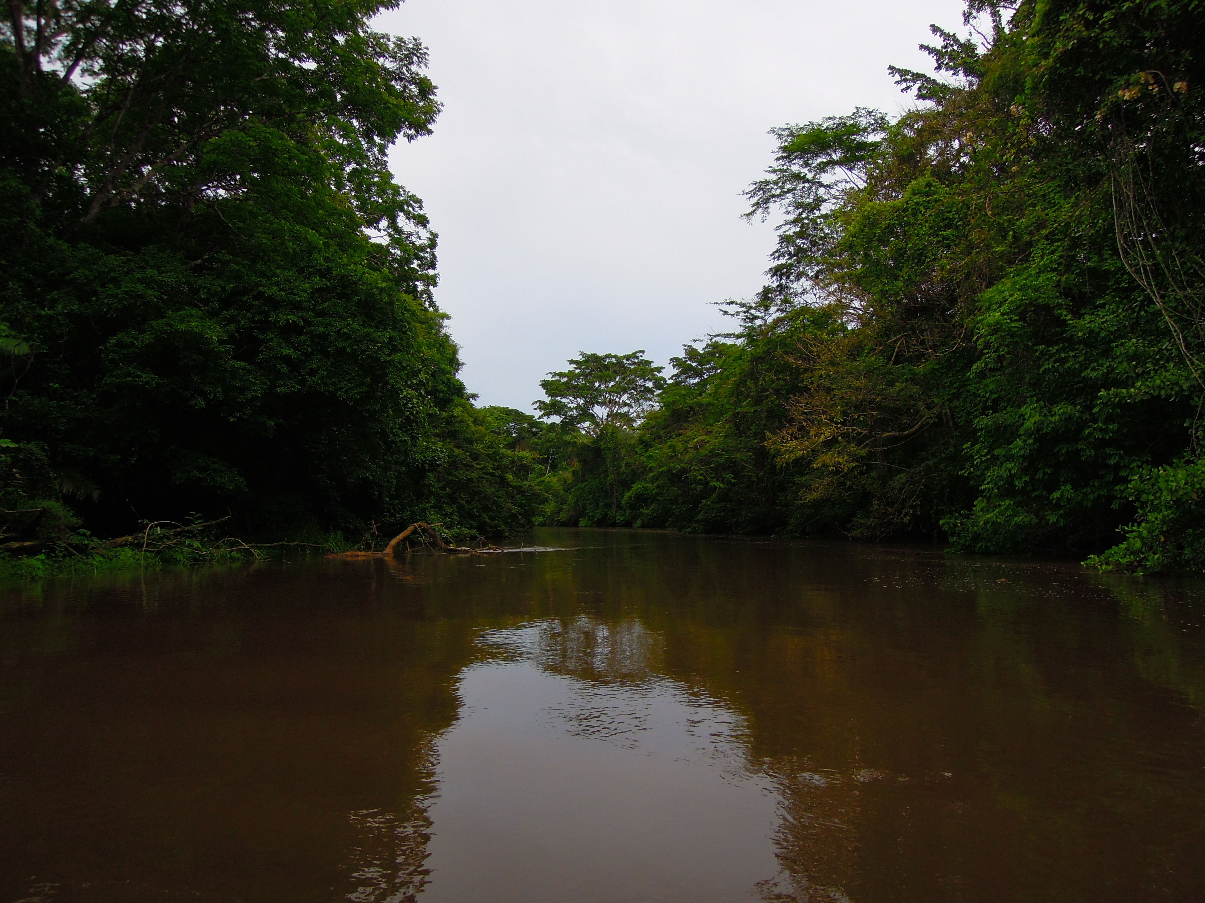 View of Caño Negro Wildlife Reserve